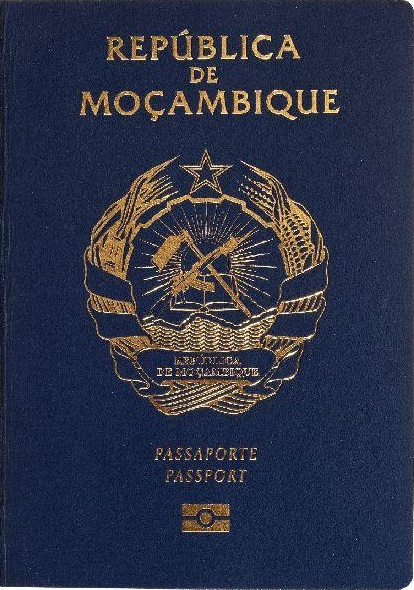 Front cover of a Mozambican passport